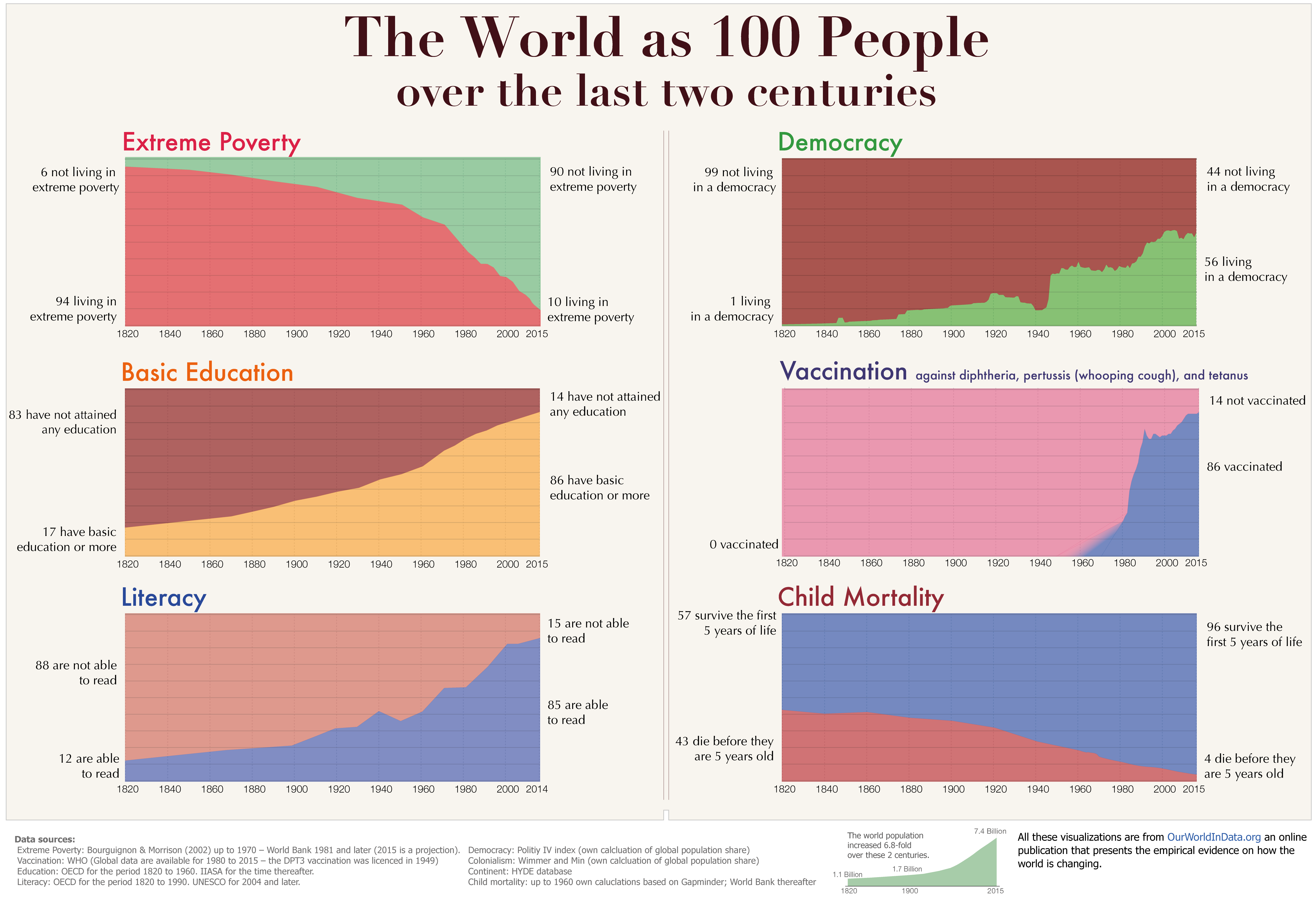 Compilation of five graphs from the Our World in Data organization, showing the overall global percentages of the last two centuries, in five factors: Extreme poverty, democracy, basic education, vaccination, literacy, child mortality.